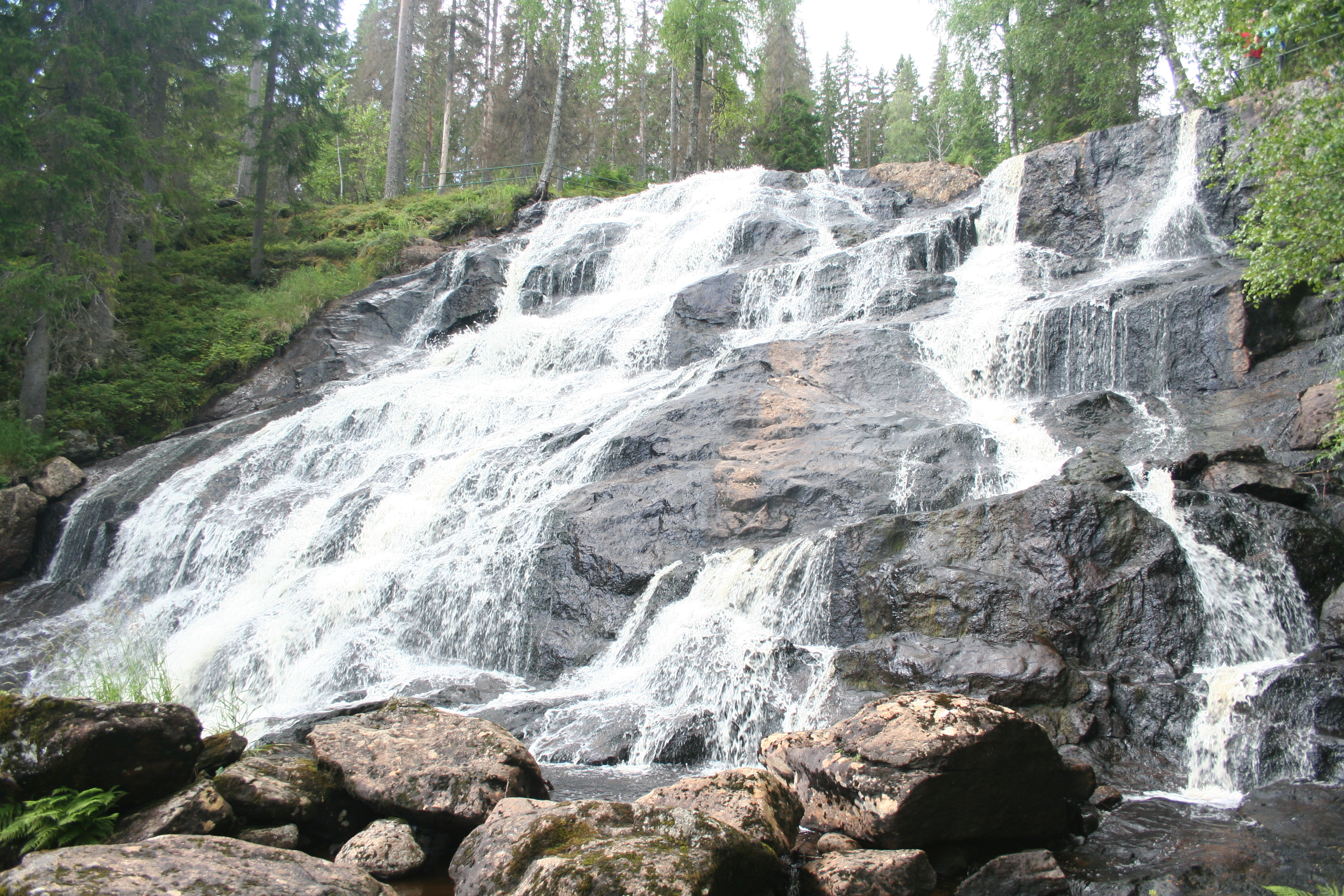 Picture of the top part of the Västanå waterfall in Västernorrlands län near the village Viksjö.